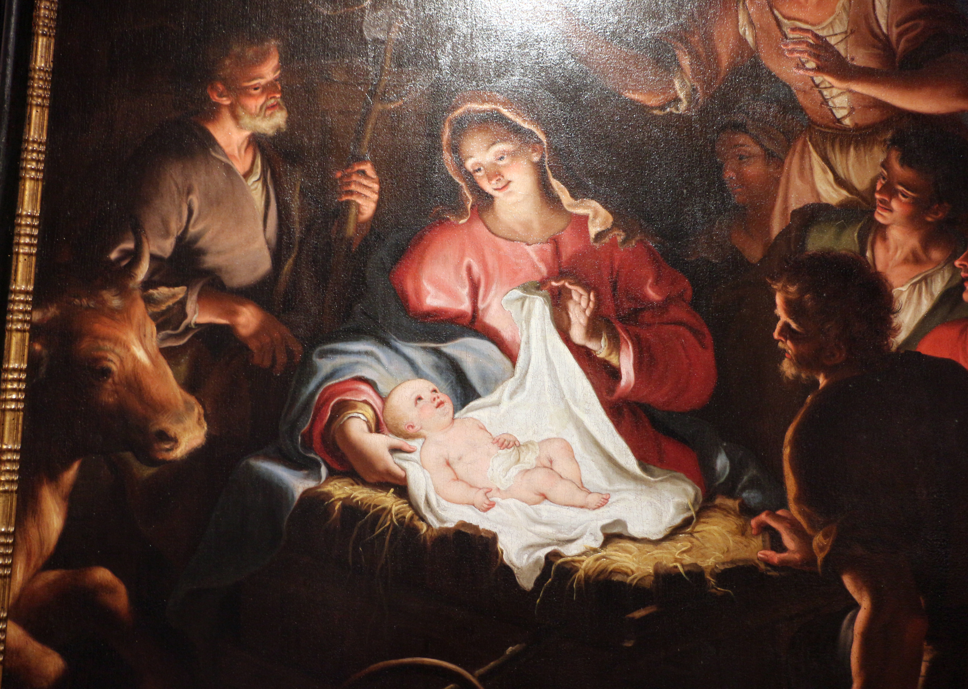 San Nicolò (Zanica) - Museum